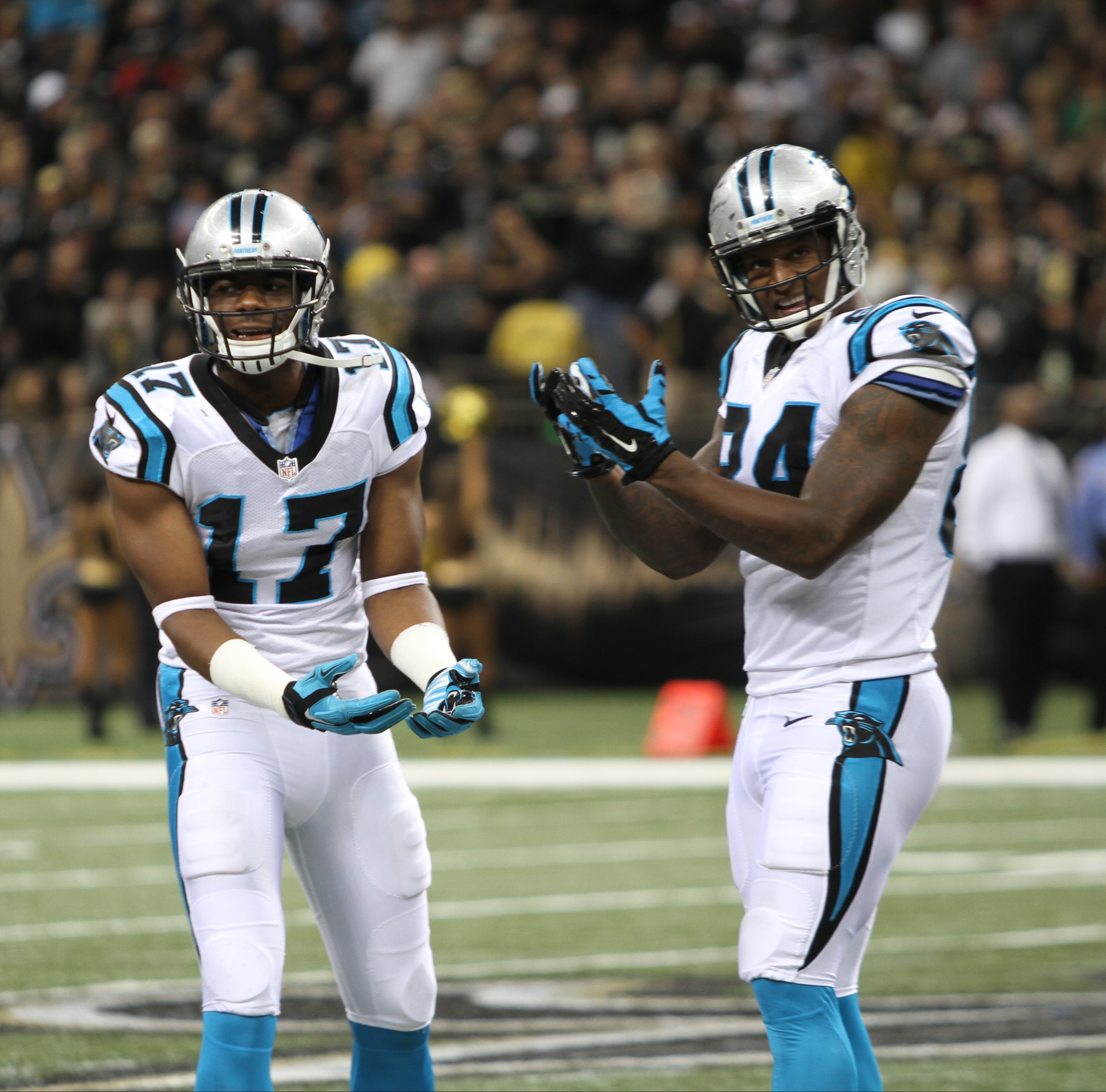 New Orleans Saints vs Carolina Panthers, December 6, 2015, Tammy Anthony Baker, Photographer